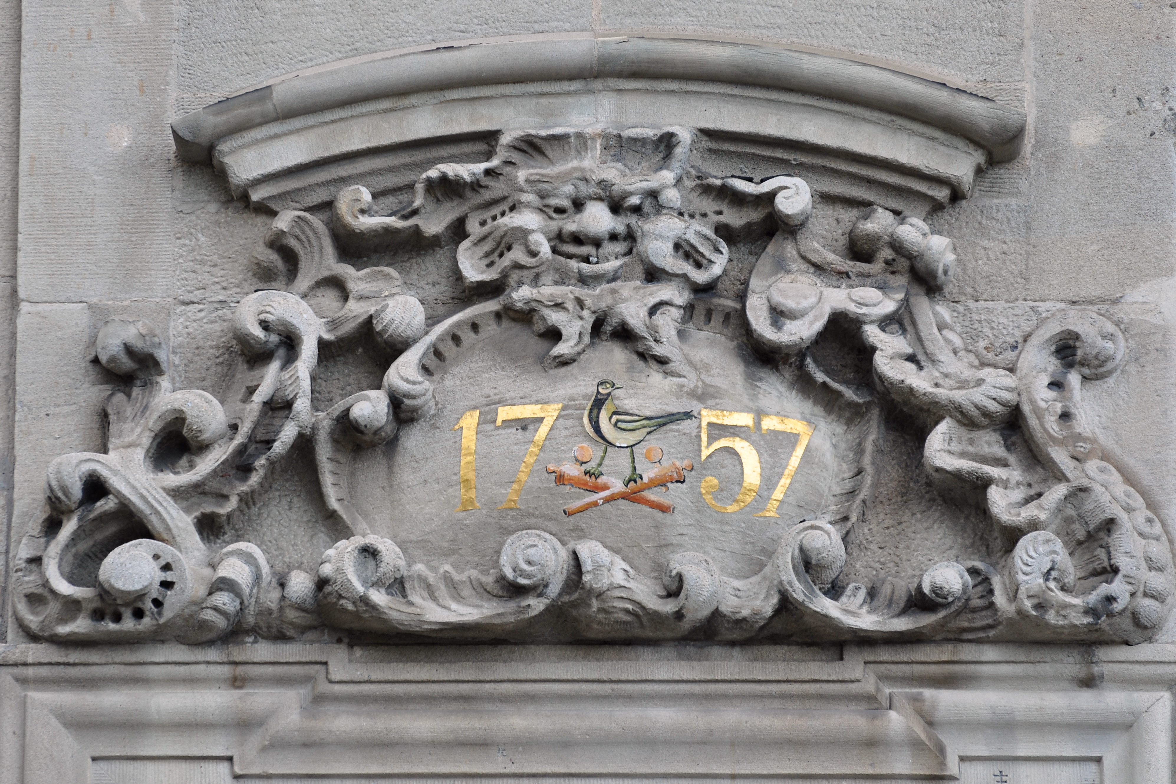 Zunfthaus zur Meisen in Zürich (Switzerland) as seen from Münsterhof.